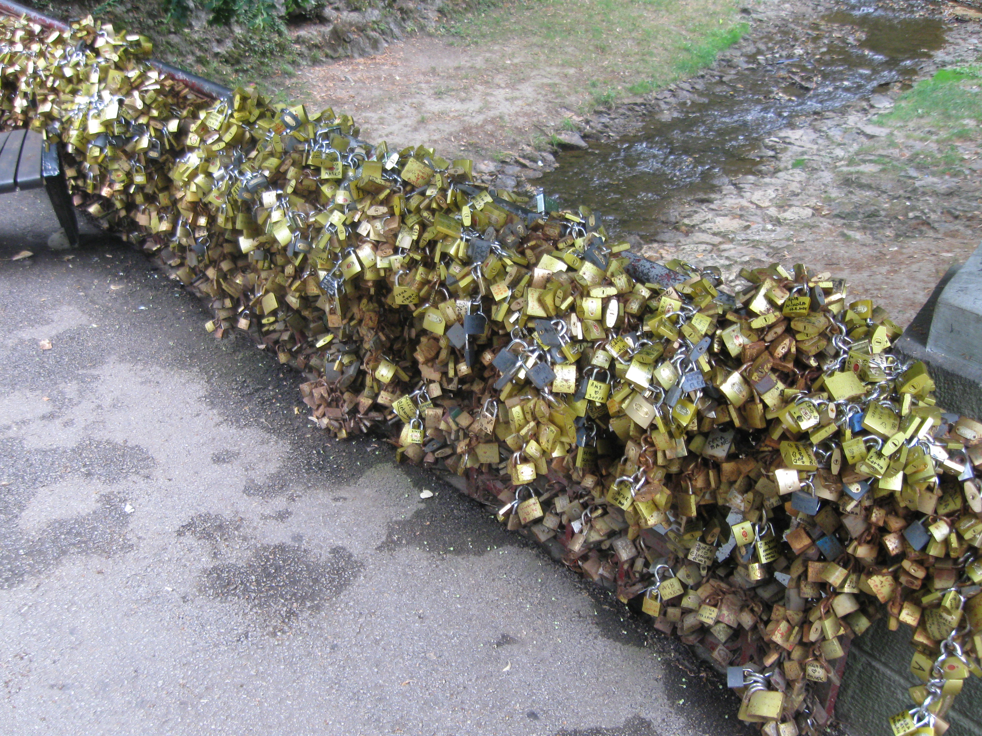 Most Ljubavi, Vrnjačka Banja, Serbia. View of the love padlocks